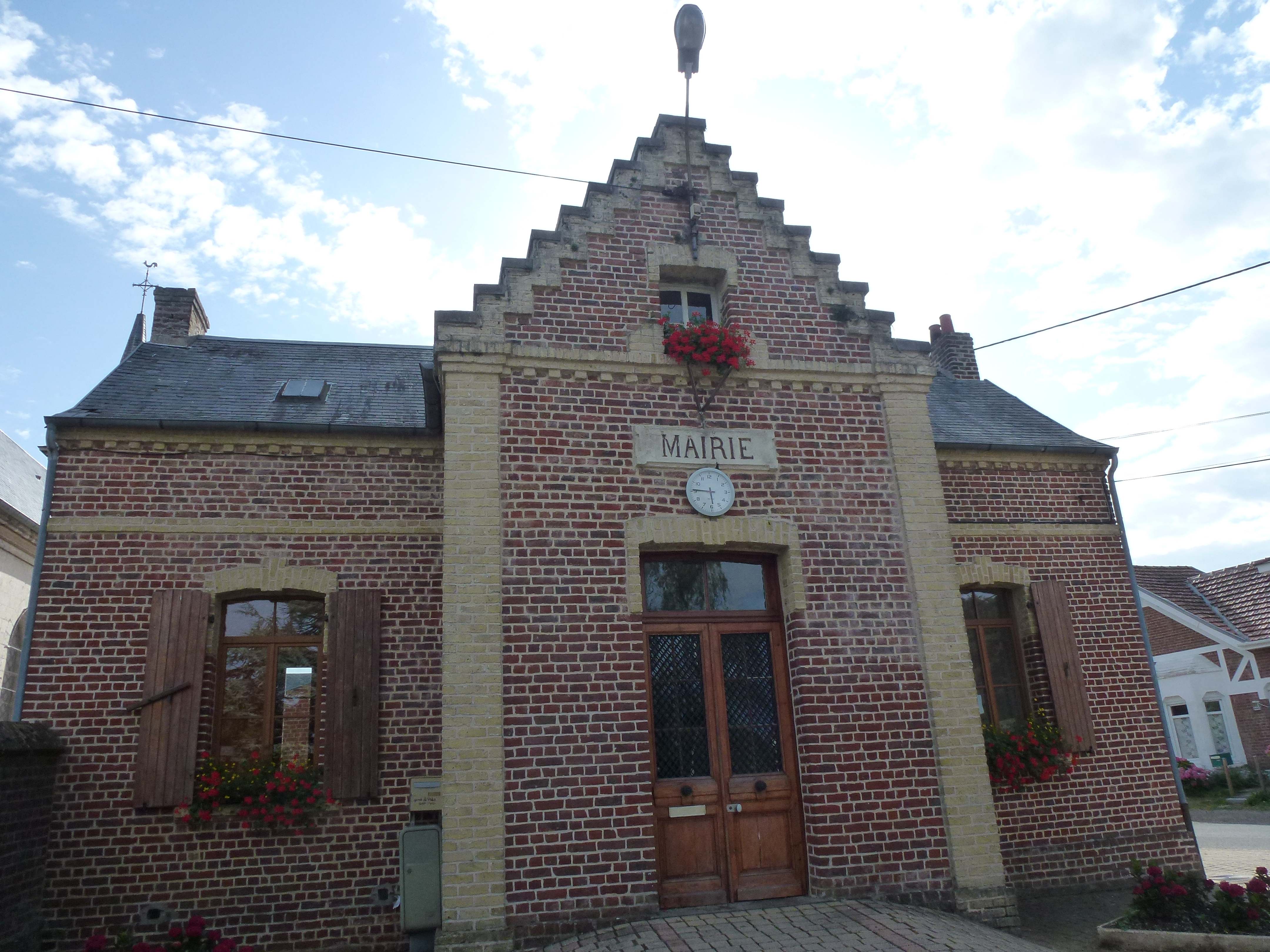 Autingues (Pas-de-Calais) mairie